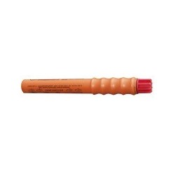 Fallschirmrakete 300 Meter